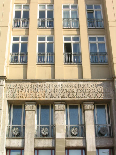 Description: Detailansicht vom "Haus Berlin" am Strausberger Platz. Bauzeit: 1951-1953. Architekten: Hermann Henselmann. Vom Westen aus fotografiert. Detailed view of the building "Haus Berlin" on Strausberger Platz in Berlin, seen from the west. Source: self-made. I release it into the public domain. Gryffindor 00:54, 10 March 2006 (UTC)